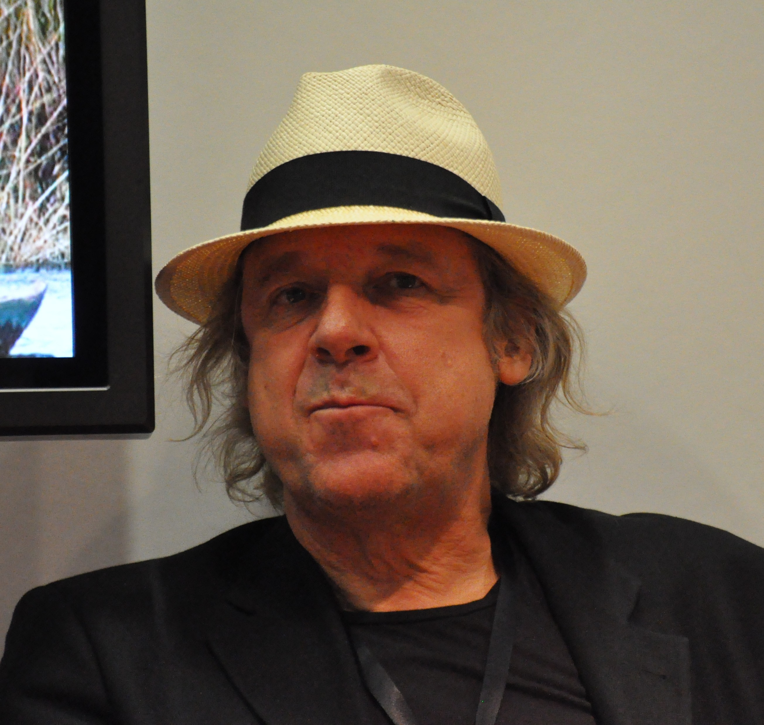 Gunnar Bergdahl på Bokmässan i Göteborg 2011